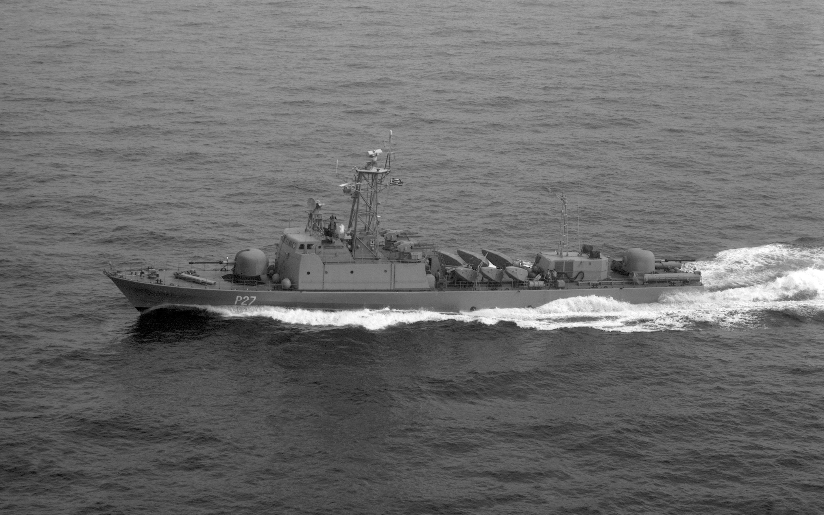 A port beam view of the Greek fast attack craft (missile) H.S. SIMEOFOROS XENOS (P 27) underway.